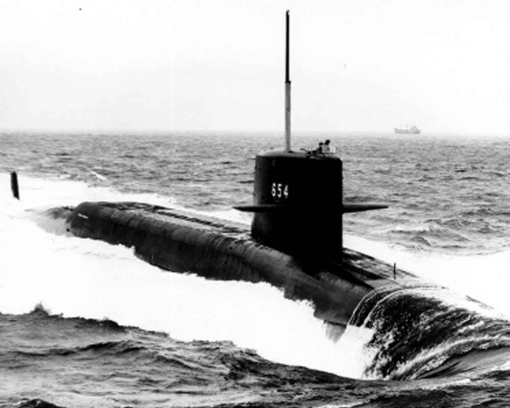 The Pre-commissioning photo of the U.S. Navy ballistic missile submarine USS George C. Marshall (SSBN-654), underway off the coast of Newport News, Virginia (USA), on 31 March 1966.